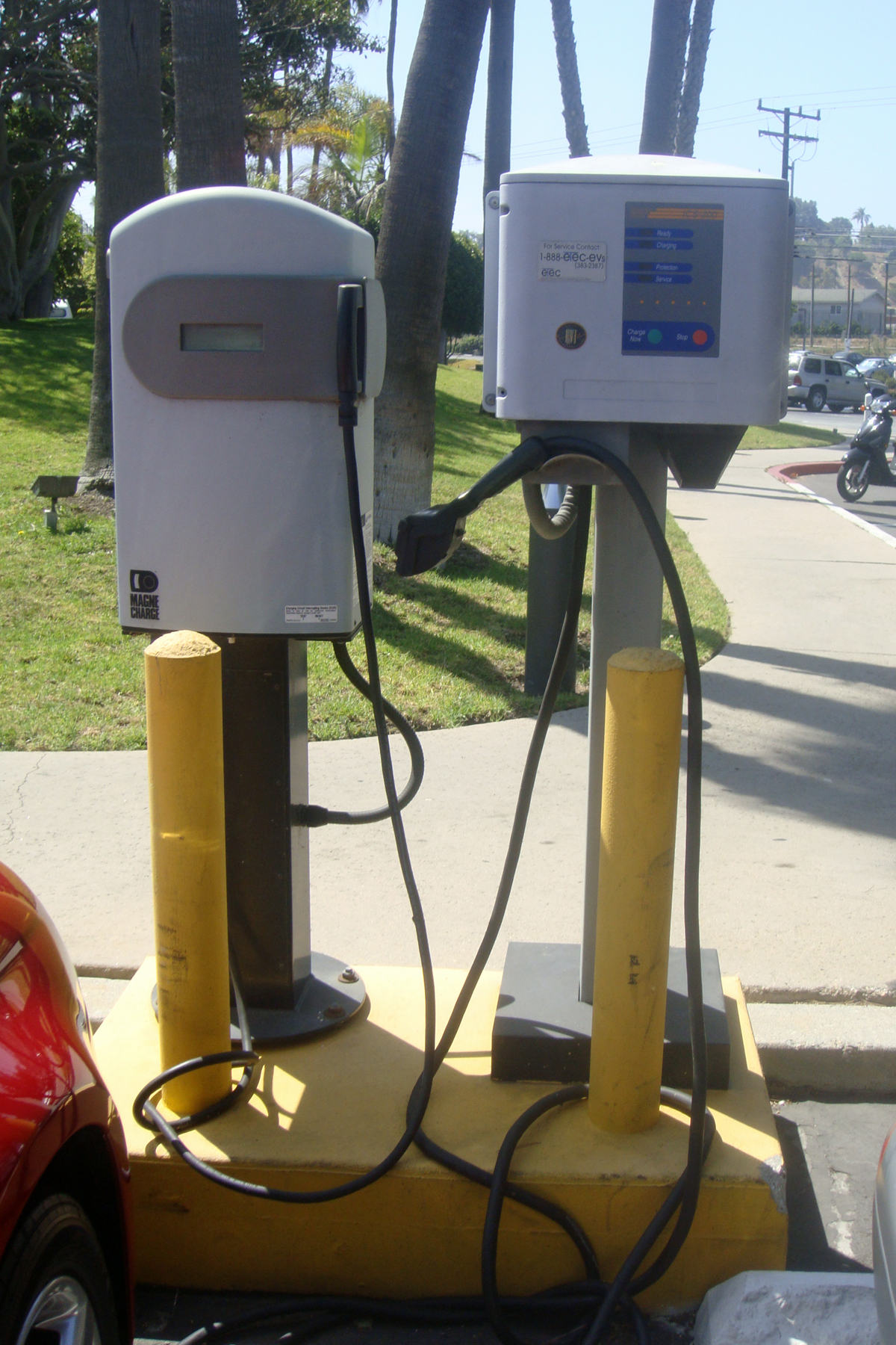 Electric charging station at a hotel parking lot near Los Angeles International Airport